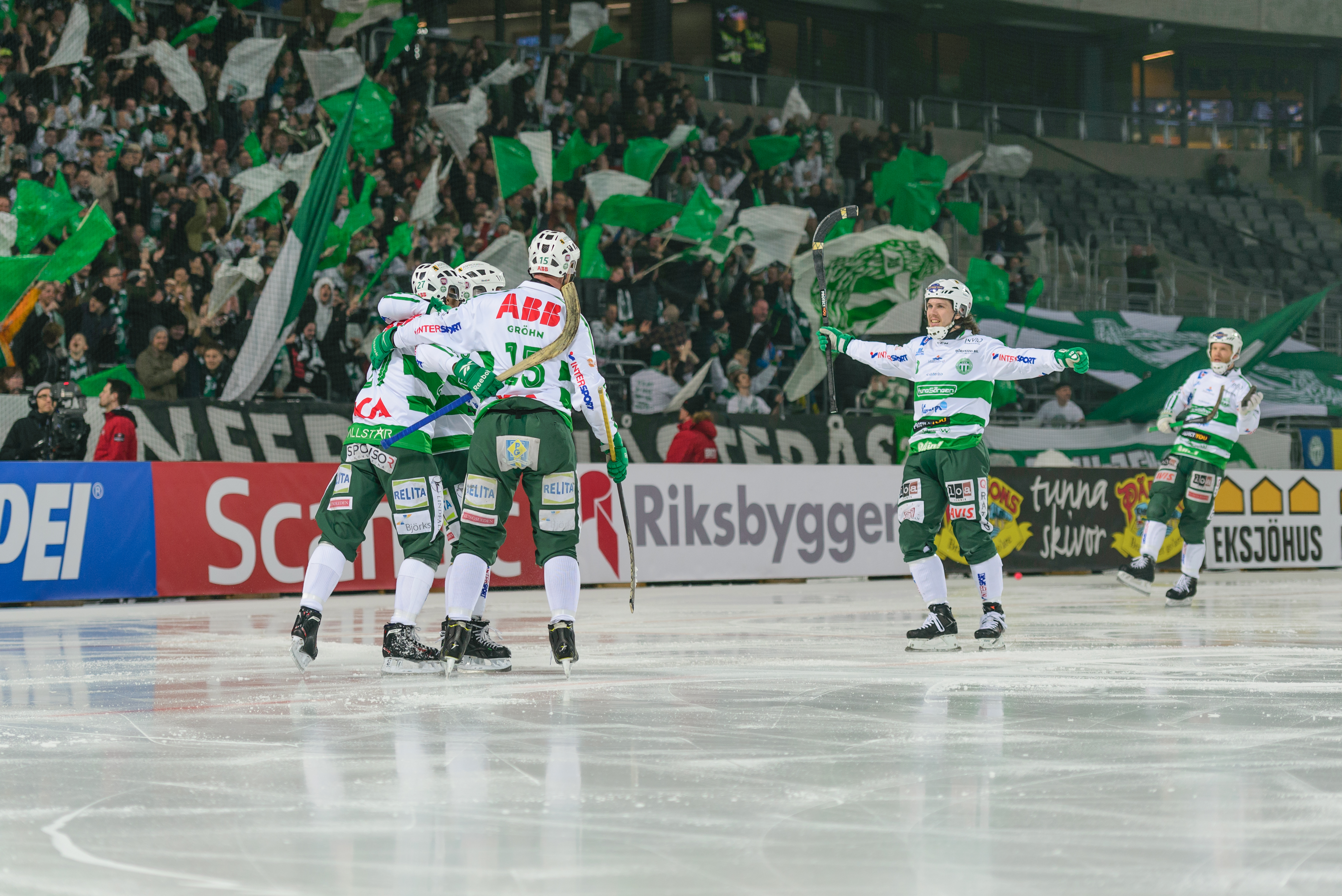 Swedish men's bandy championship final game of 2015, Sandvikens AIK (black)-Västerås SK (green/white) 4-6.